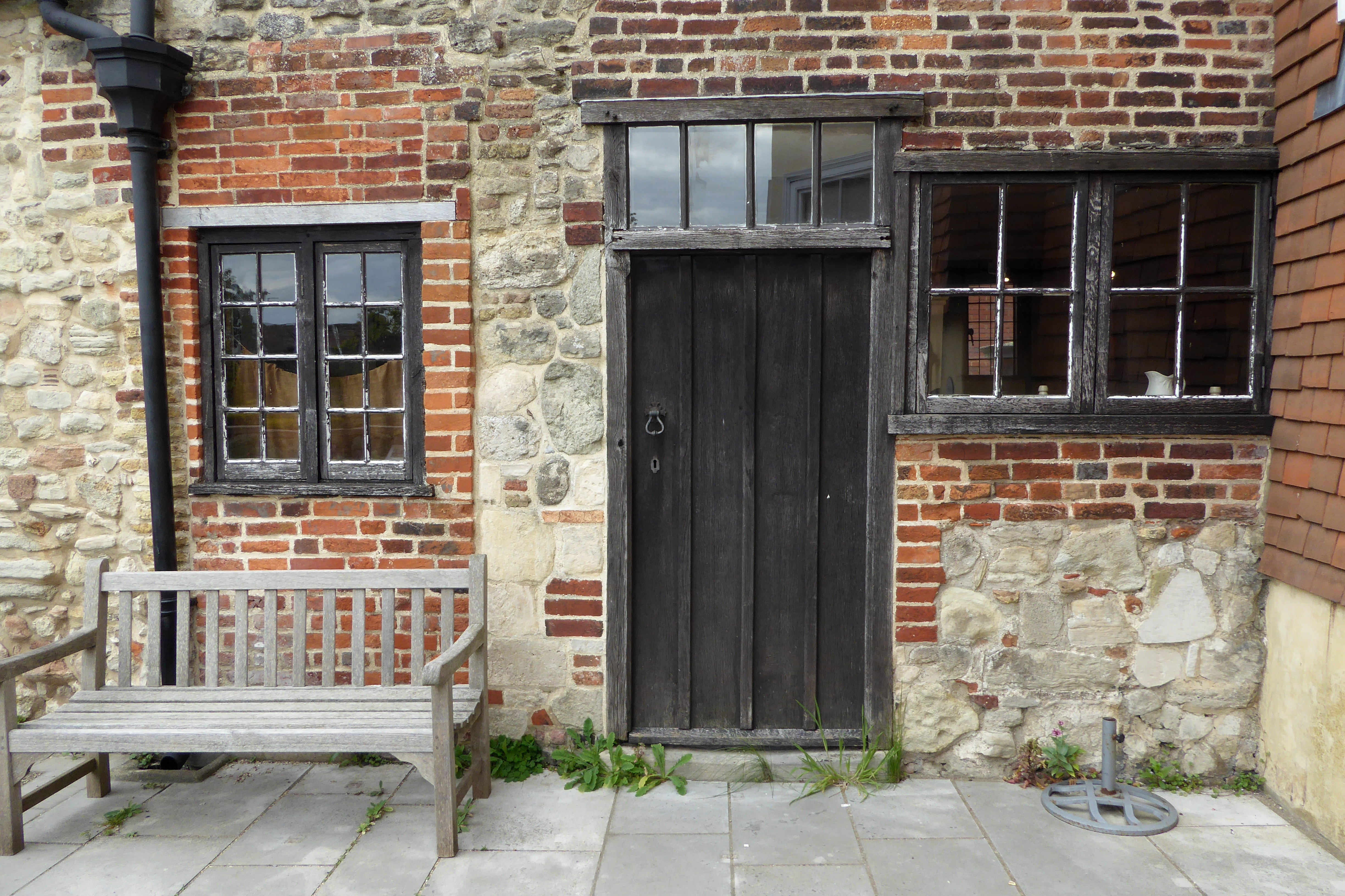 External detail of part of Tudor House, Southampton from its garden.